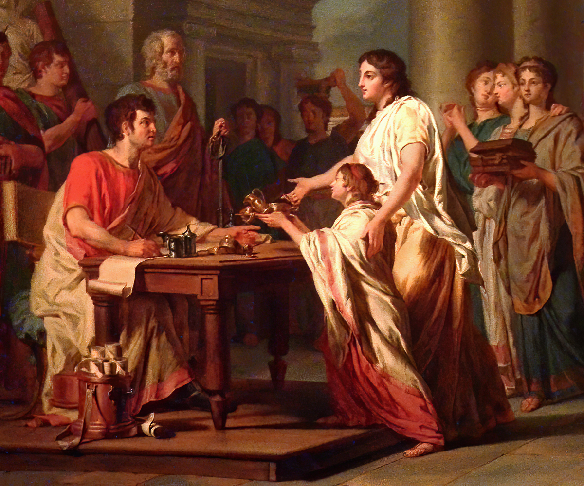 Piety and Generosity of Roman Women by Nicolas Guy Brenet French 1785 Oil Detail photographed at the Utah Museum of Fine Arts in Salt Lake City, Utah.